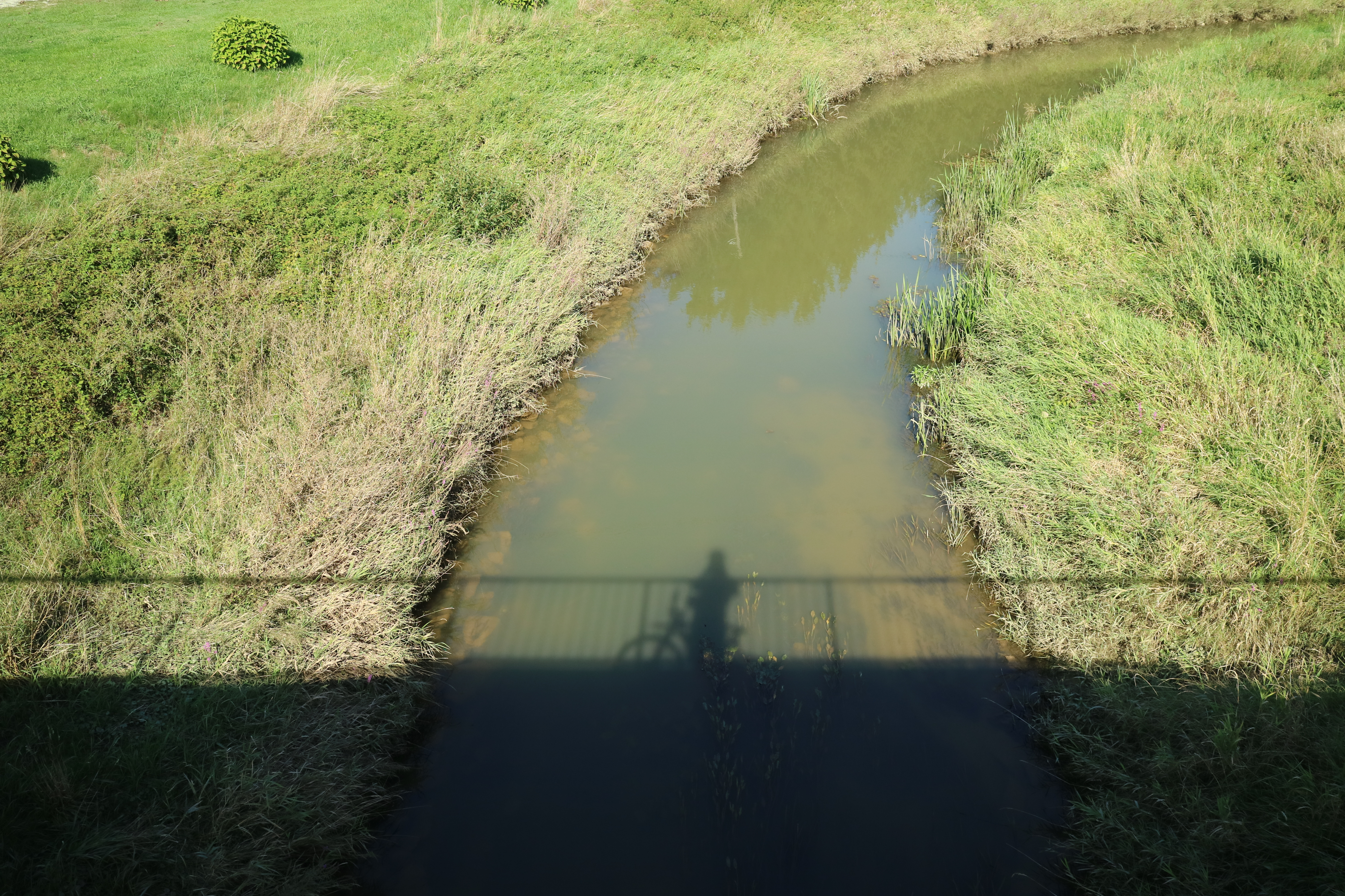 Ščavnica in Razkrižje, Slovenia, view downriver